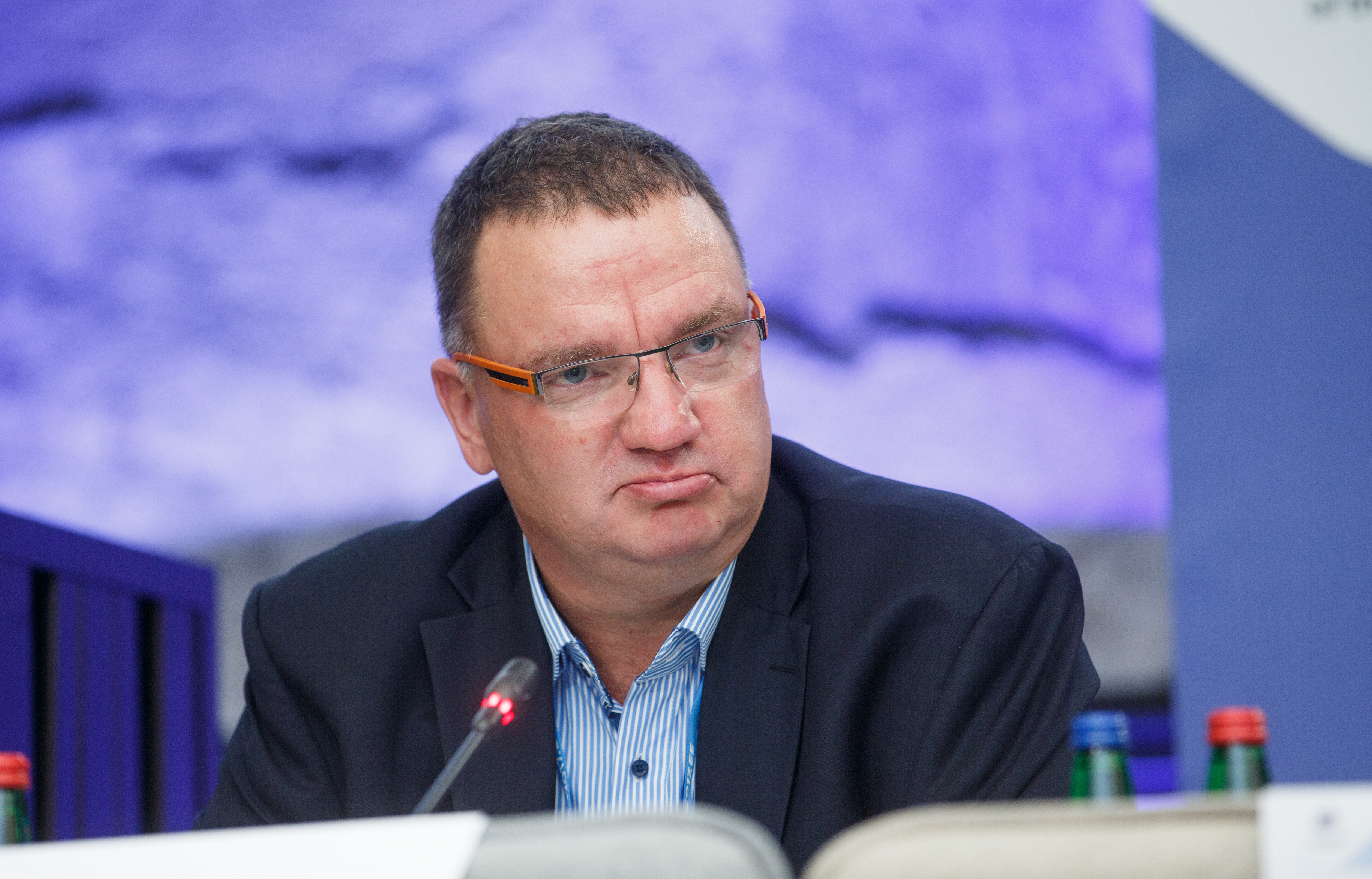 Hannes Astok (moderator), Director for Development and Stategies of the Estonian e-Governance Academy Photo: Raul Mee (EU2017EE)